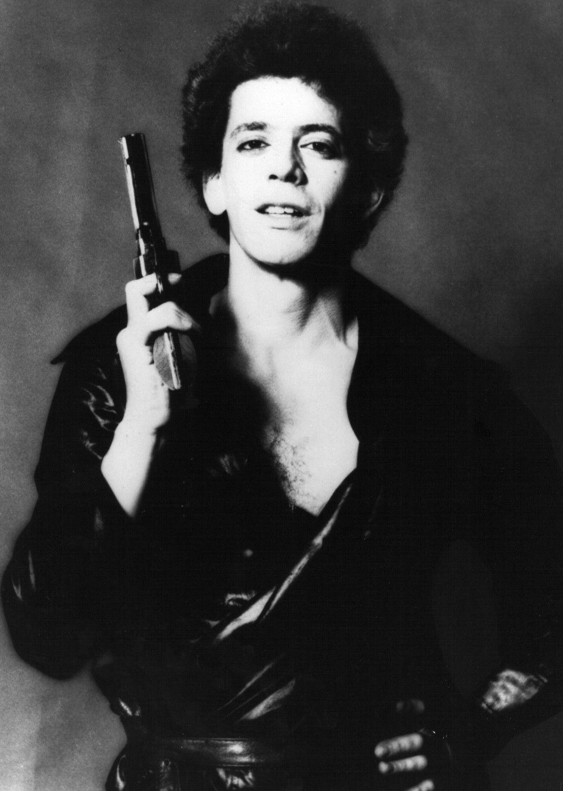 Photo of Lou Reed.